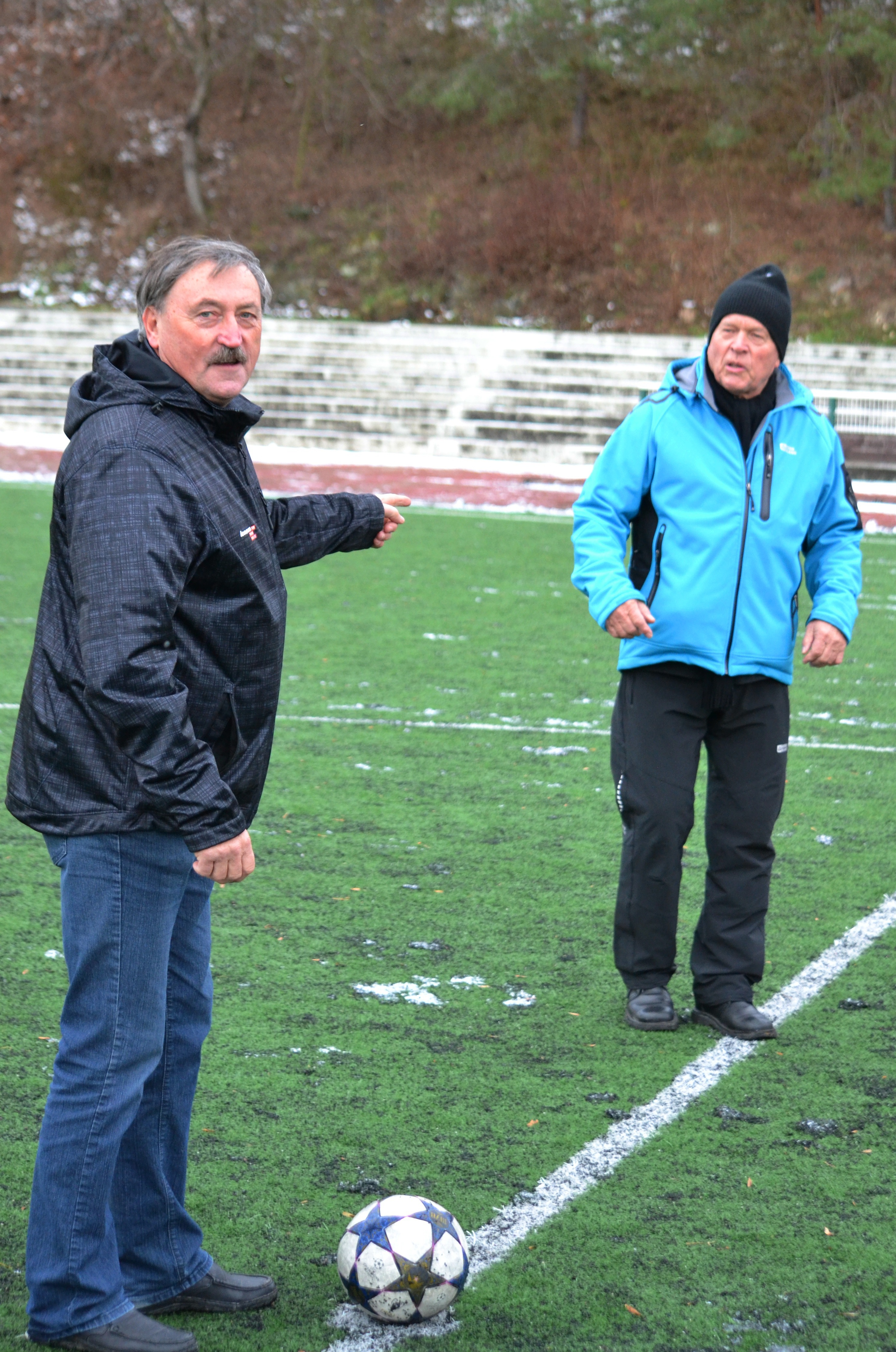 Antonín Panenka (left), Czech footballer and Ivo Viktor, Czech football goalkeeper